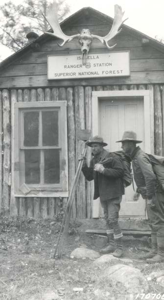 Black and white photograph circa 1924 of Isabella Ranger Station in Superior National Forest near the town of Isabella, Minnesota, United States